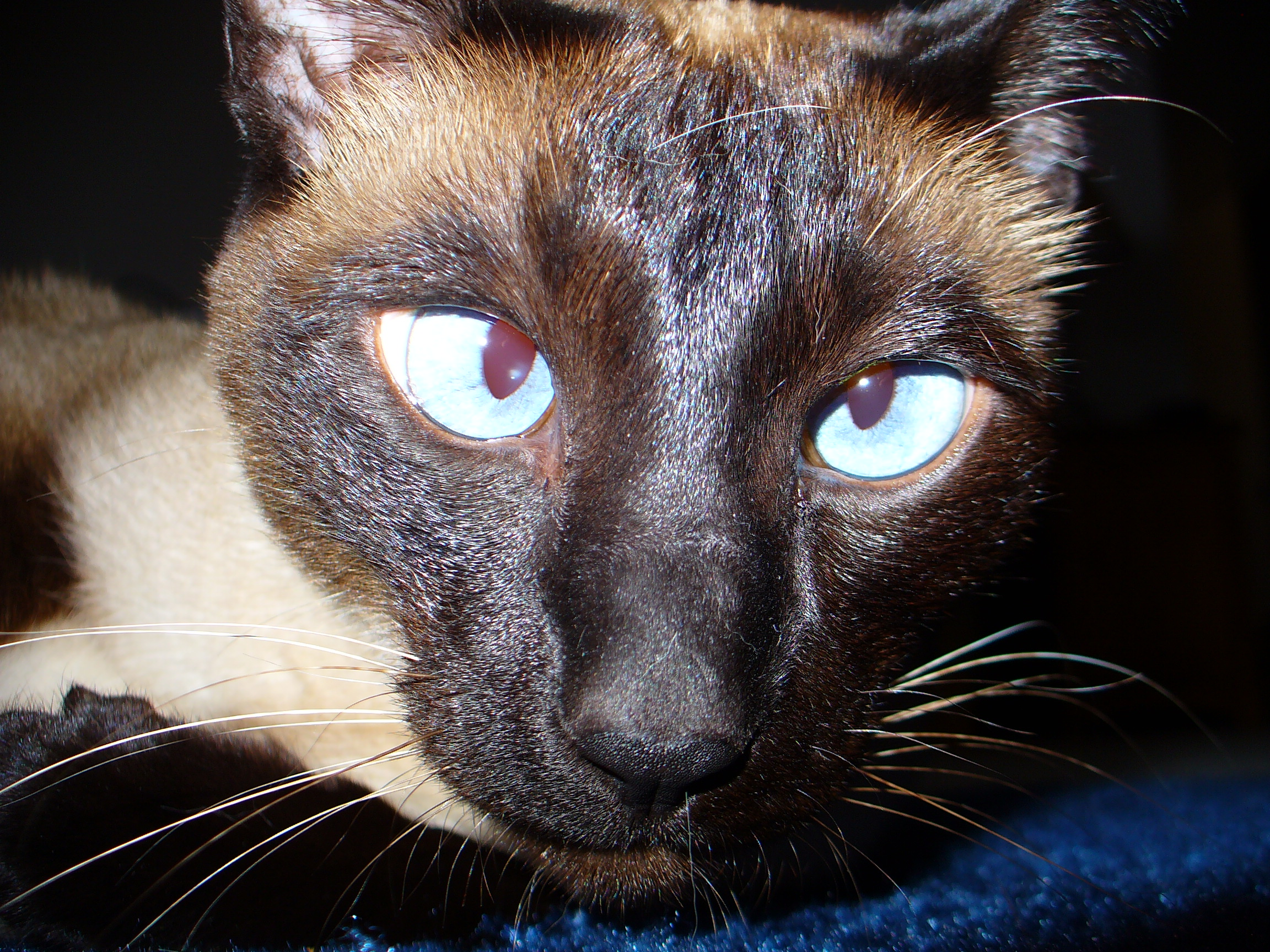 A Siamese Cat displaying the typical blue, cross-eyed eyes typical of the breed.